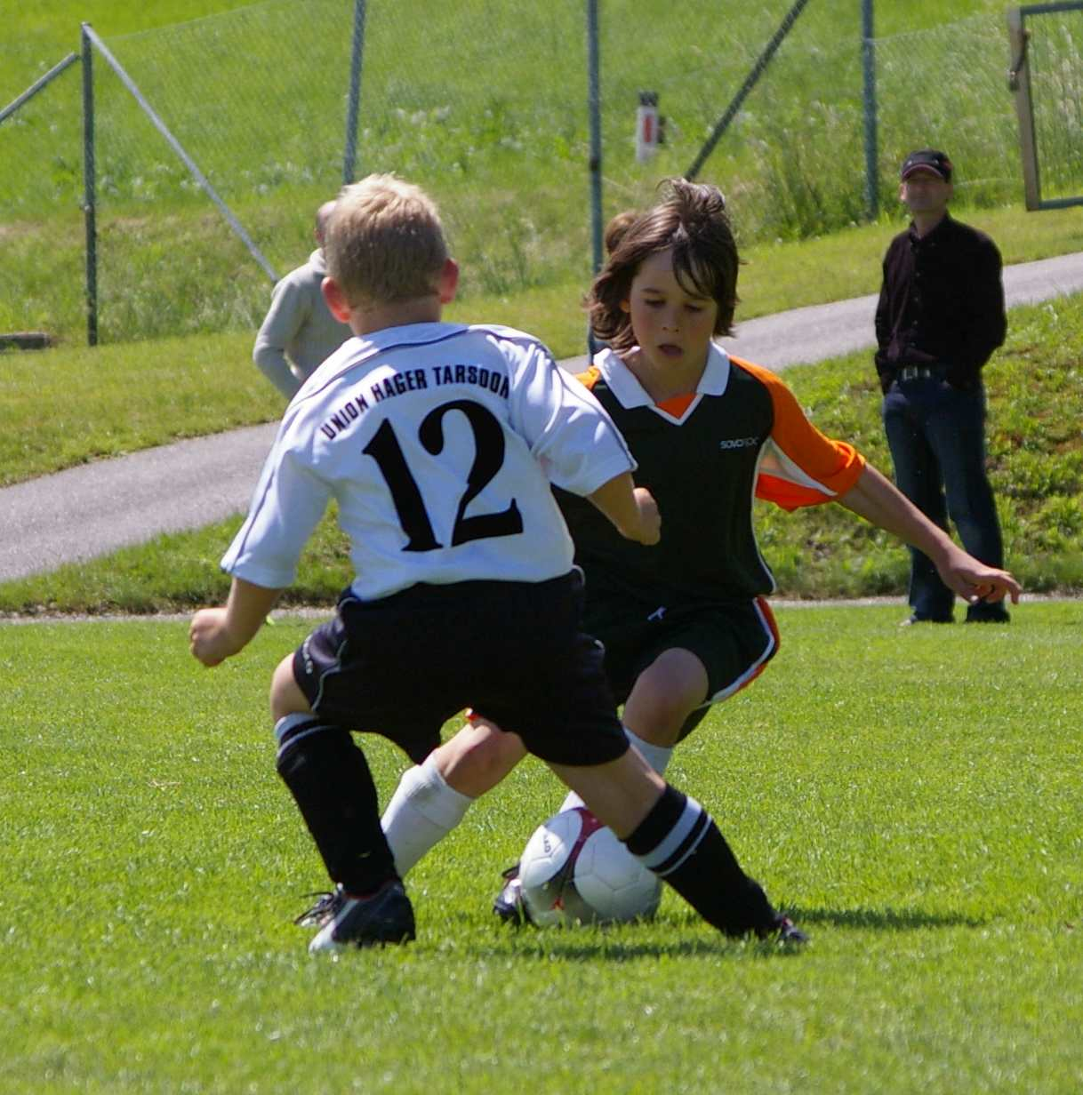 Boys playing football